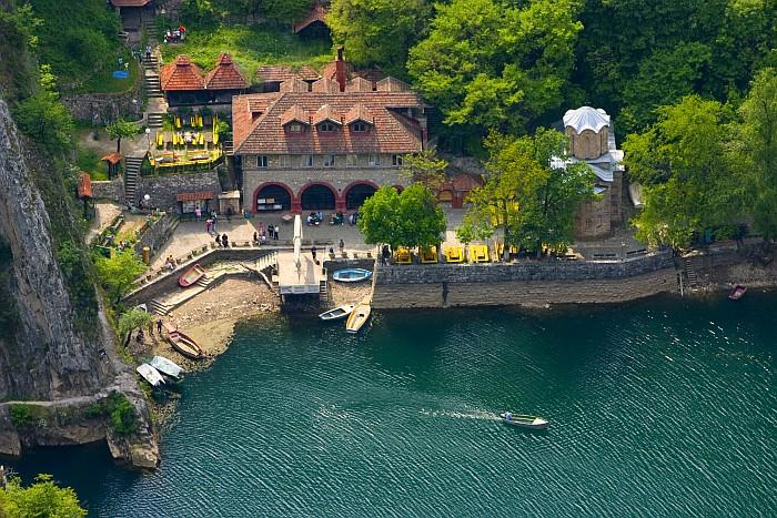 Andresh monastery - Macedonia